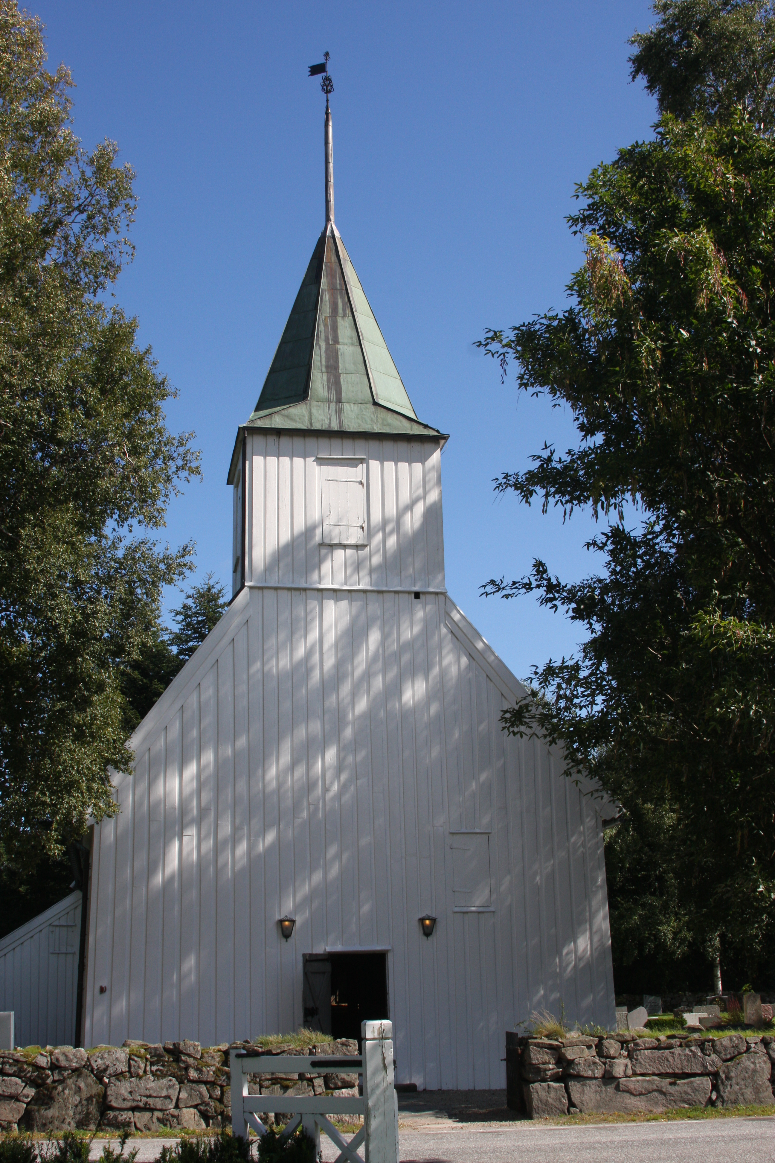 Sögne Old Church (Søgne gamle kirke) in Sögne municipality, 15 km west of Kristiansand, Norway. Medieval.